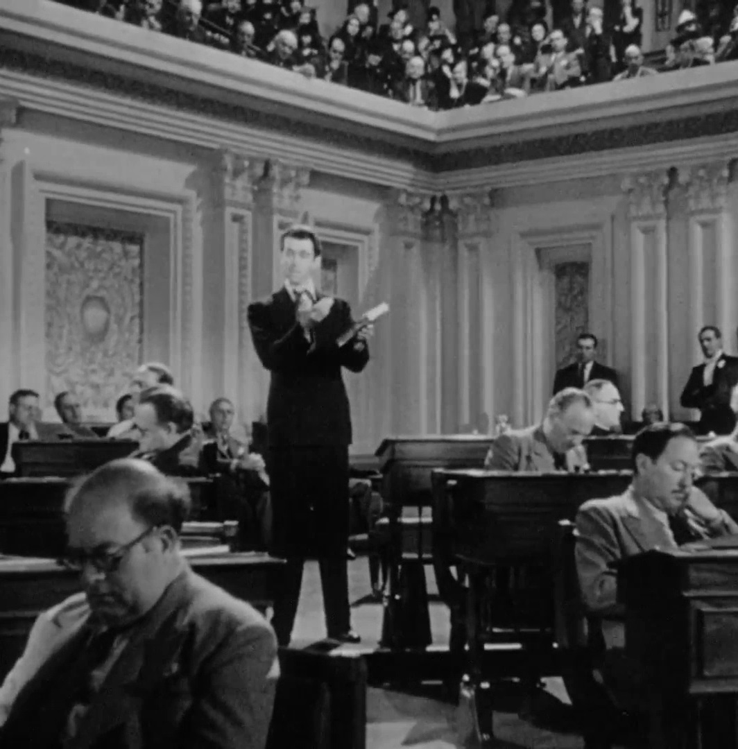 Cropped screenshot of James Stewart from the trailer for the film Mr. Smith Goes to Washington